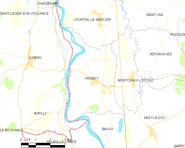 Map of French municipality